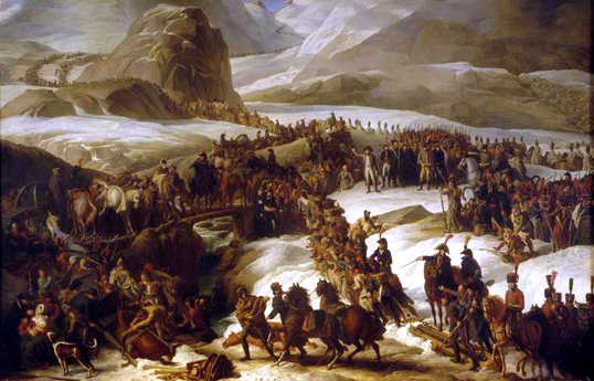 The French Army Crossing the St. Bernard Pass 1806 by Charles Thevenin